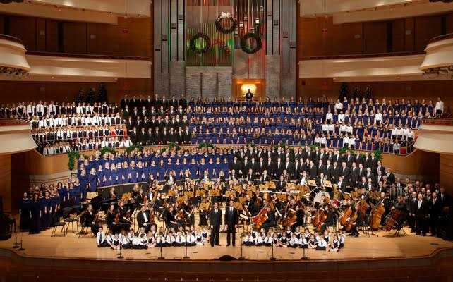 MCO performing in Renée & Henry Segerstrom Concert Hall @ Segerstrom Center for the Arts, 2013